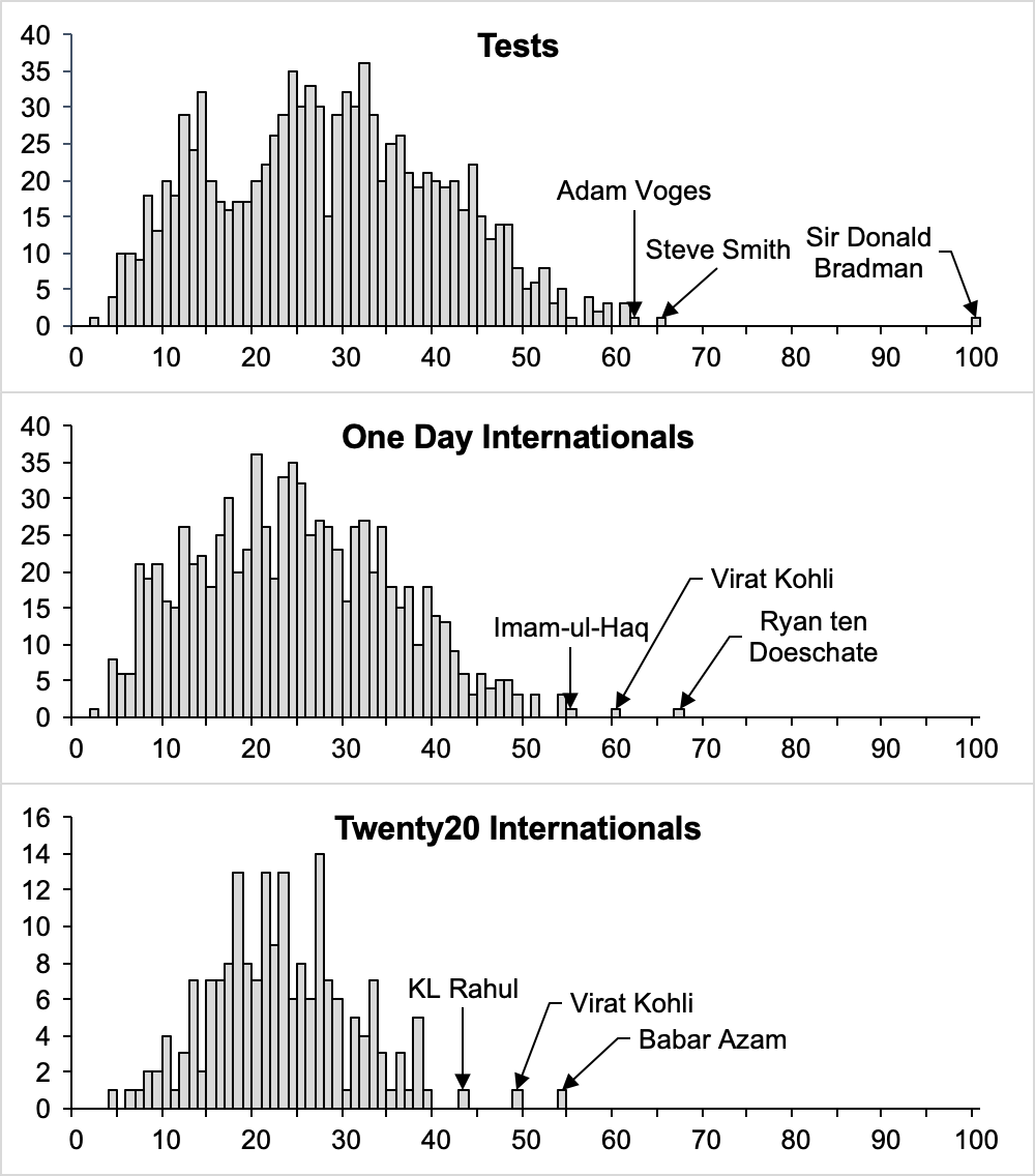 International cricket Test and ODI career batting averages